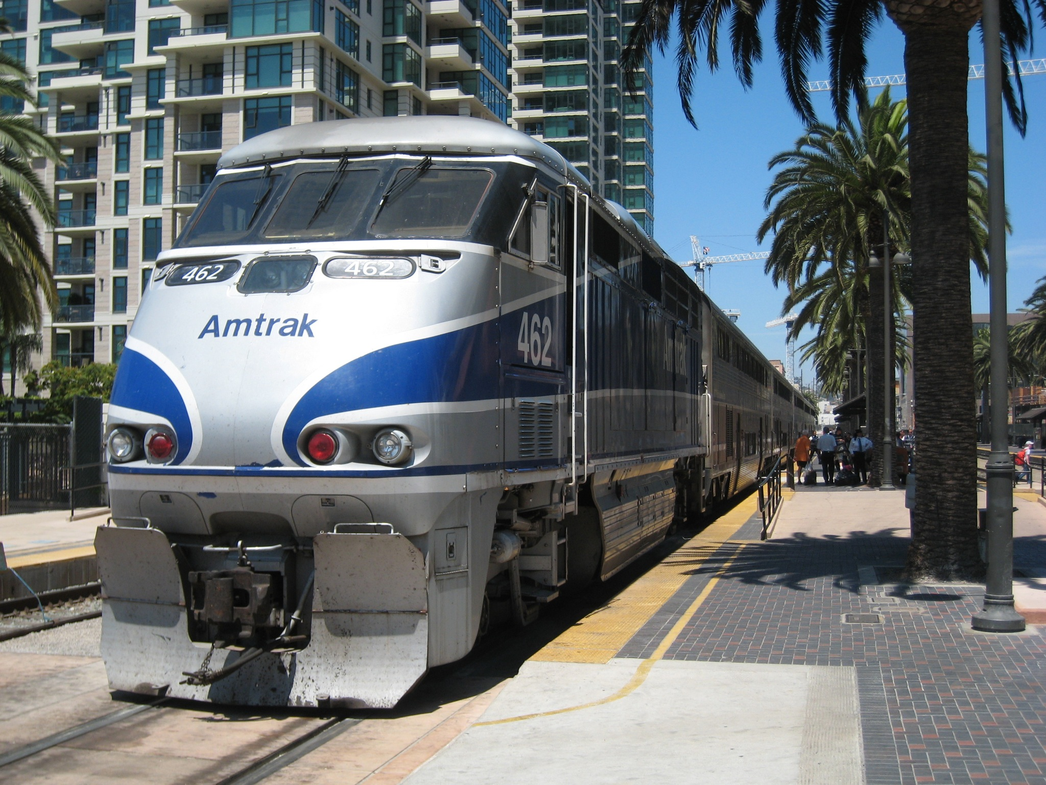 Amtrak Pacific Surfliner with EMD F59PHI diesel locomotive #462